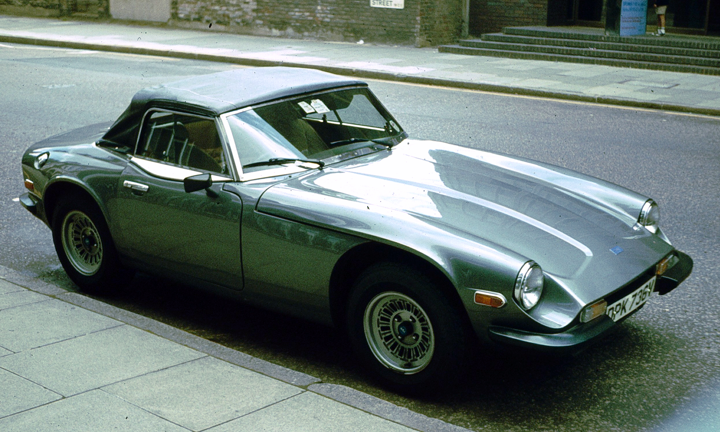 TVR 3000S 1982 London